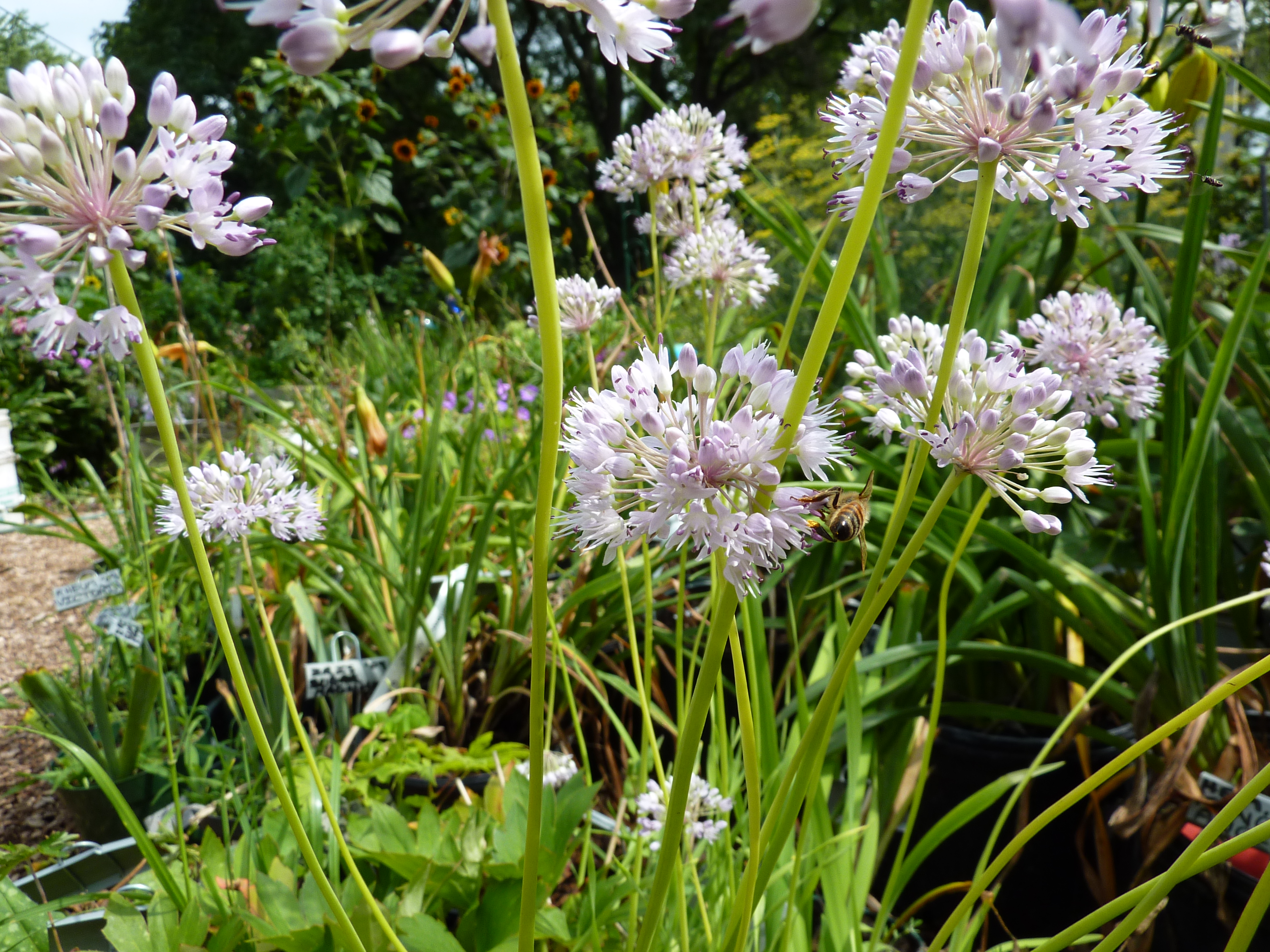 Allium senescens flowering in the garden of botanist Robert R. Kowal in Madison, Wisconsin, USA